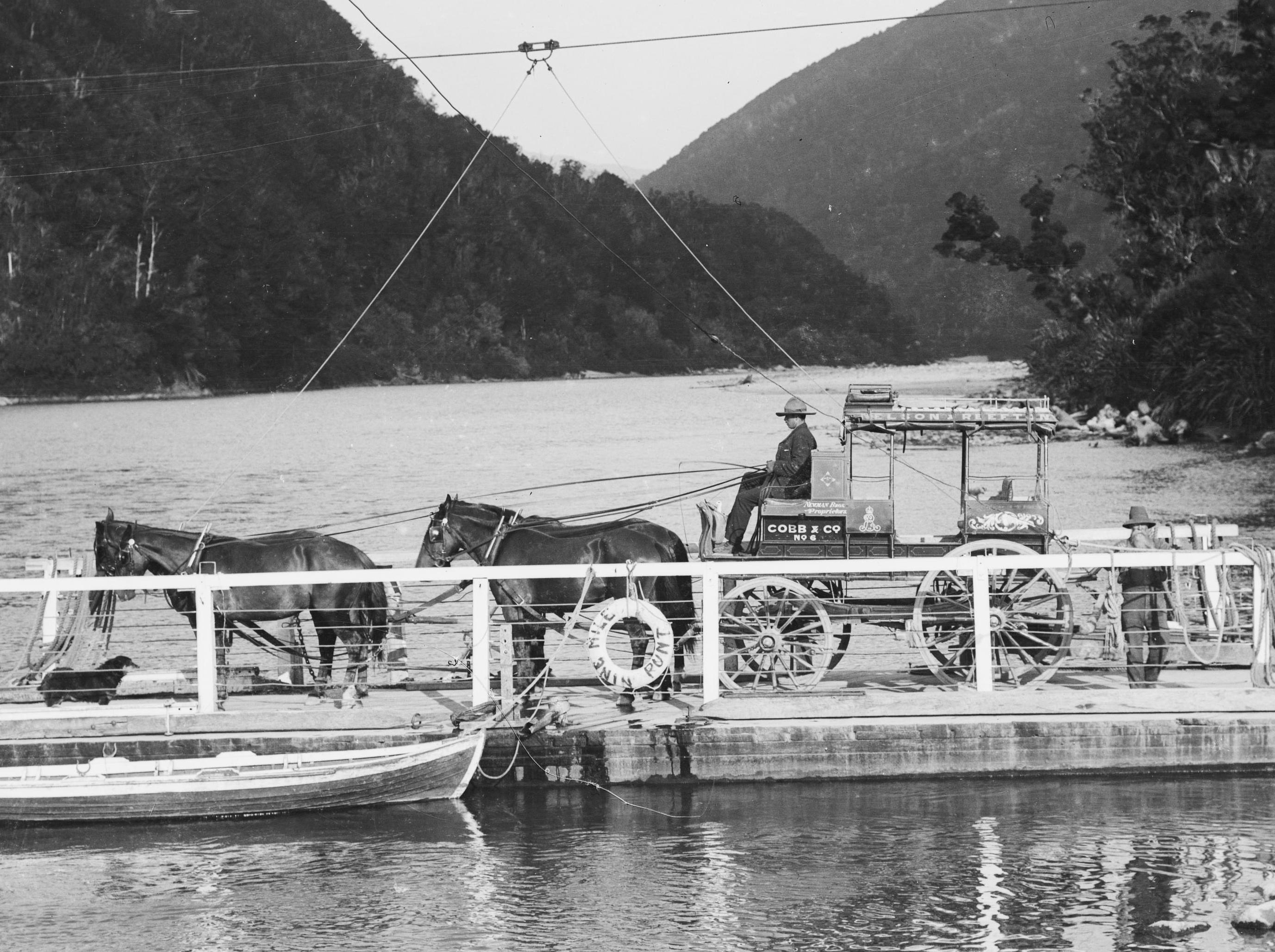 Side view of a Cobb and Company horse drawn coach on board a punt (ferry) on the Buller River. Photograph taken circa 1910 by William Archer Price. Quantity: 1 b&w original negative(s). Physical Description: Glass negative Cobb and Co coach on board a punt on the Buller River. Price, William Archer, 1866-1948 :Collection of post card negatives. Ref: 1/2-022139-G. Alexander Turnbull Library, Wellington, New Zealand.